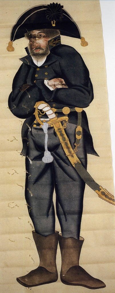 Vasily Golovnin during captivity